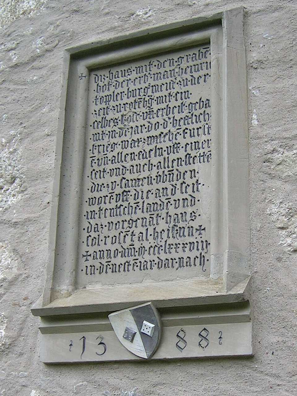 Rothenburg ob der Tauber: Topplerschlösschens